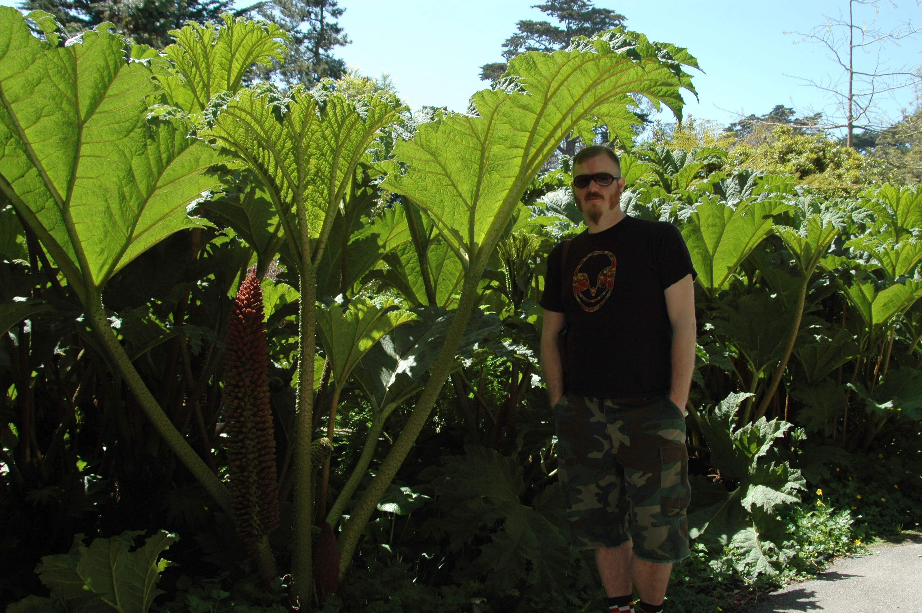 Gunnera tinctoria, photographed at the San Francisco Botanical Garden at Strybing Arboretum